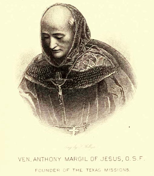 Engraving with Antonio Margil's portrait, by Hollier, published in a book.